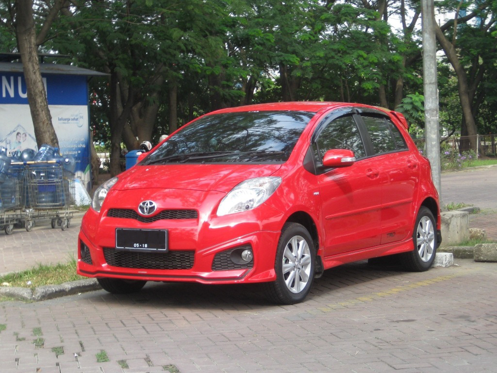 2013 Toyota Yaris 1.5 S Limited with TRD Sportivo body kits.